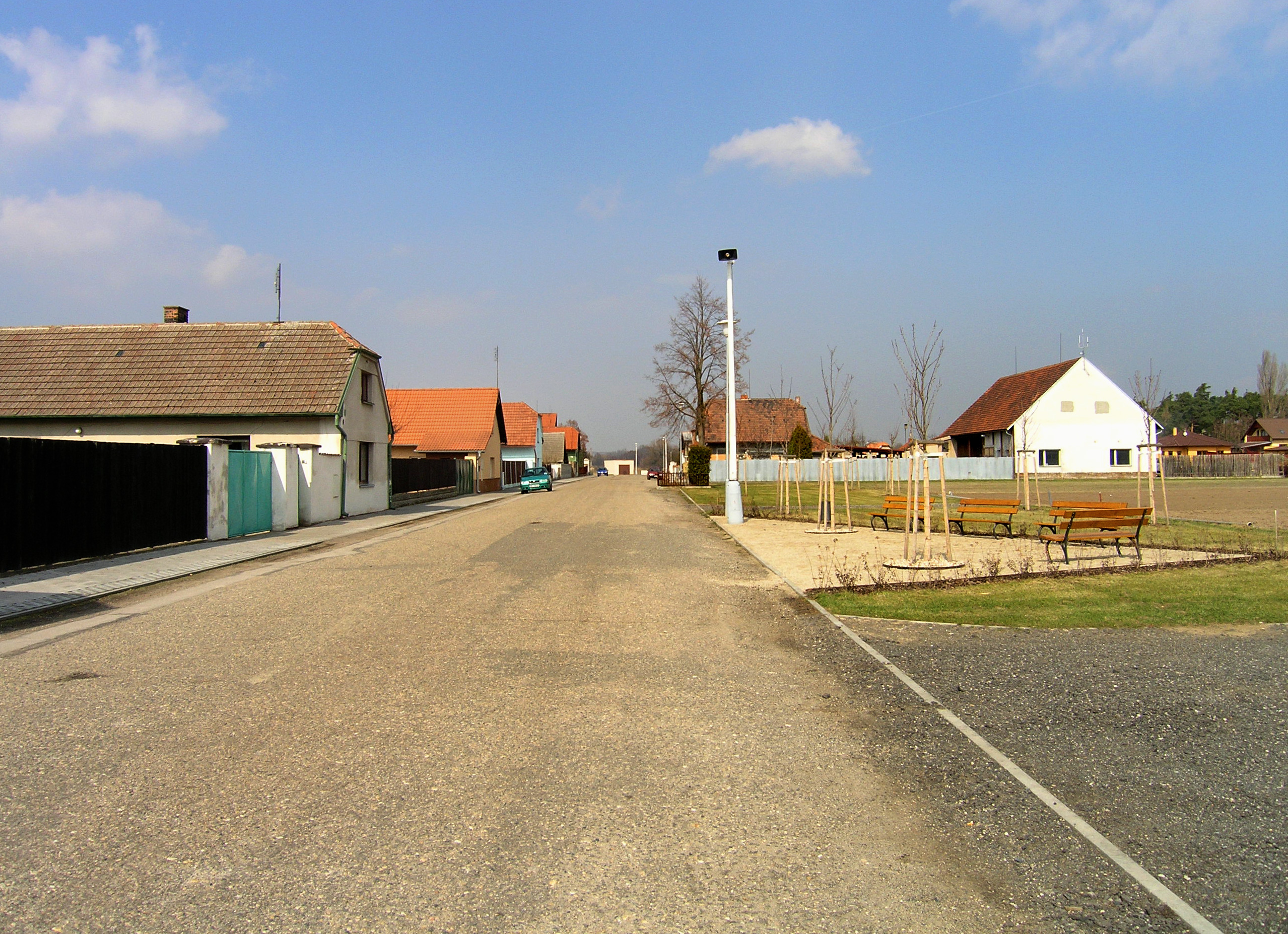 Common in Borek village, Czech Republic